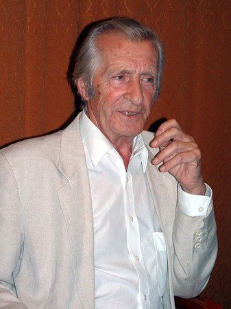 This image has been copied from the source with the permision of webmaster (and with the consent of the director of the service). The permission was granted to Stan Zurek (Zureks) via email from Mirosław Domański Andrzej Kopiczyński